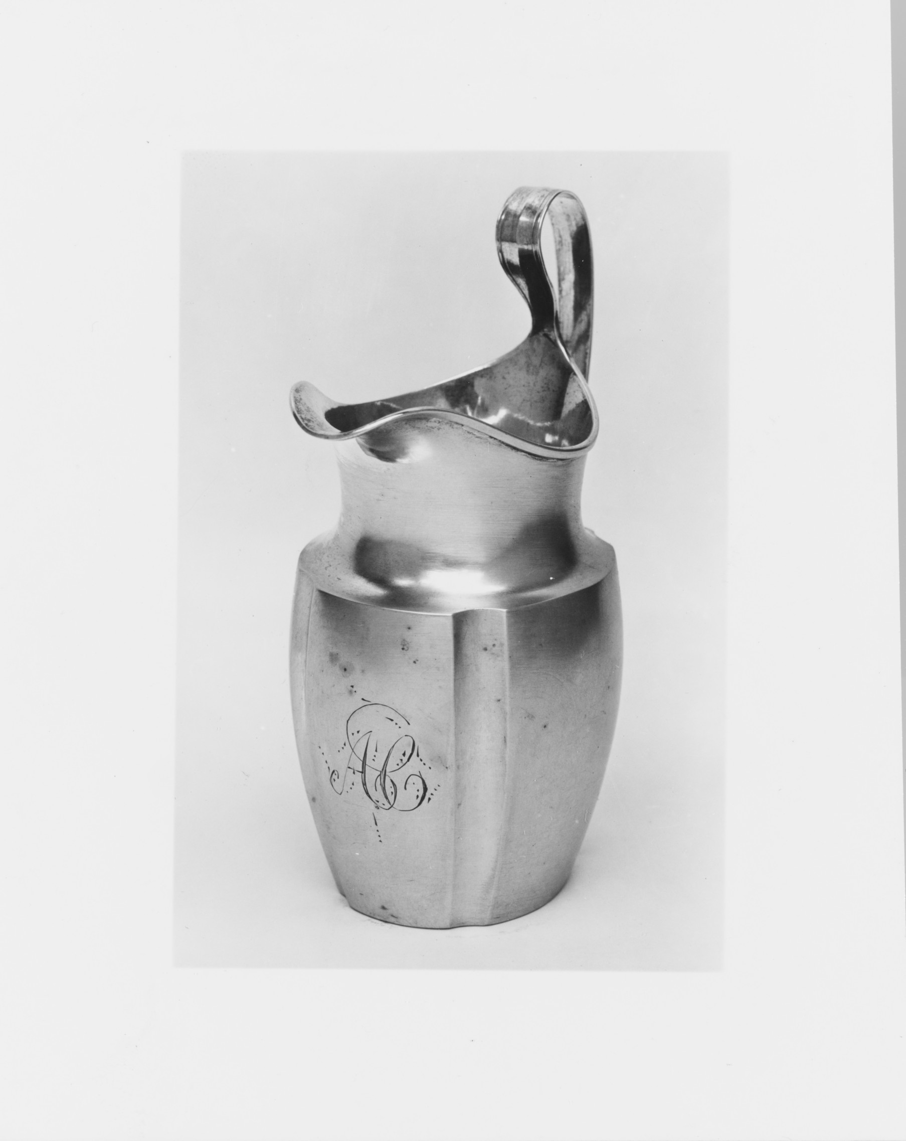 American; Cream pot; Silver